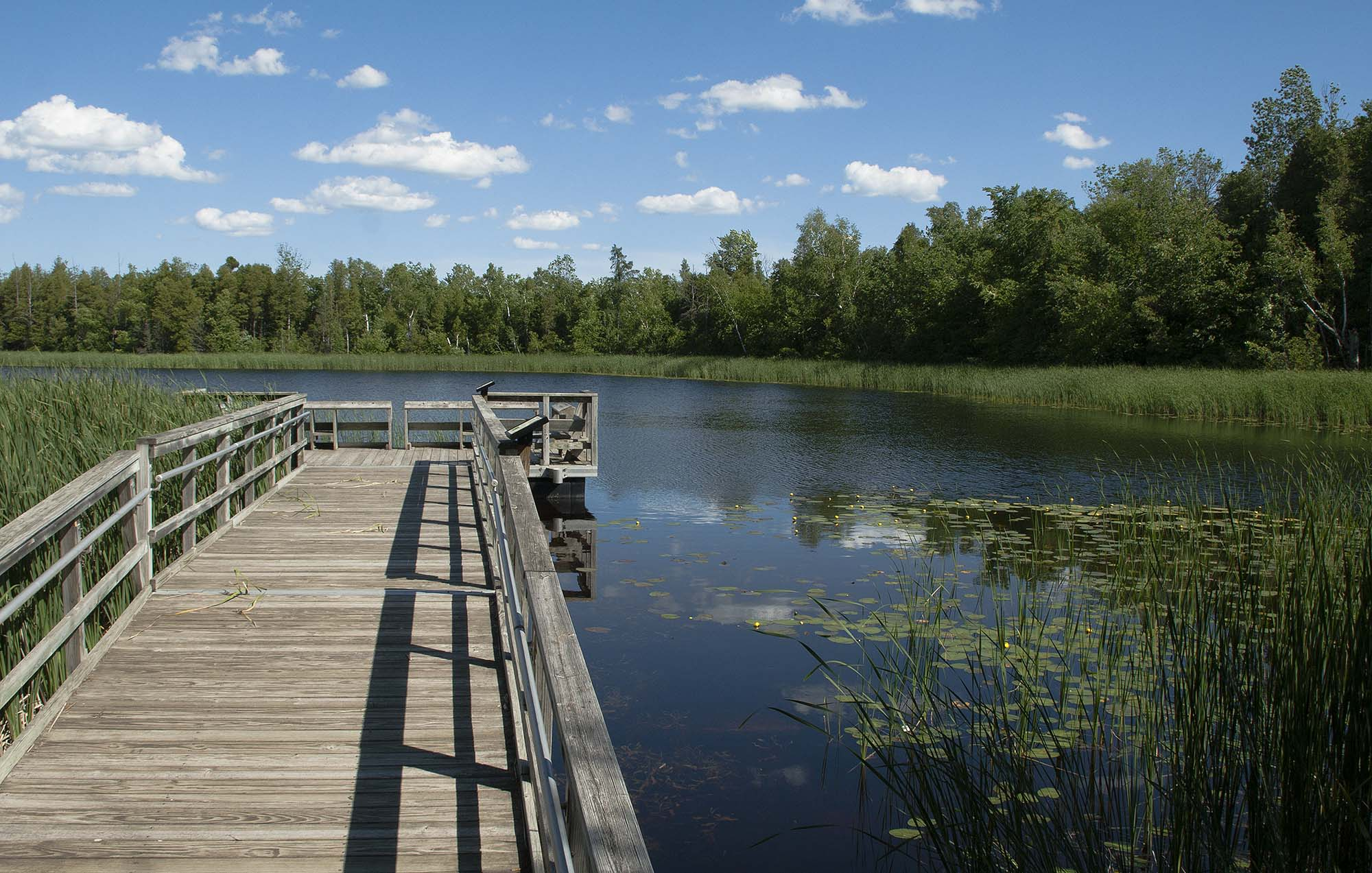 The pier and lake at the end of the trail on the north side of Cedarburg Bog State Natural Area, in Ozaukee County, Wisconsin.